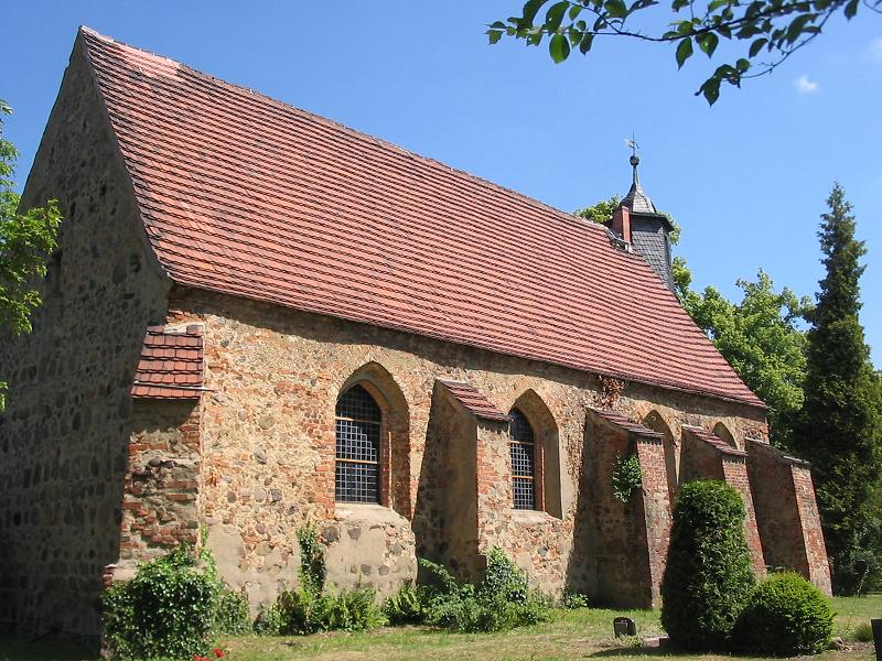 Stone church St. Briccius at the Castle Eisenhardt in Belzig, built probably in 14th century (a church before is mentioned in 1161). Belzig is the central town of the district Potsdam-Mittelmark in the state Brandenburg of Germany. Belzig appertains to the natural preserve Naturpark Hoher Fläming.